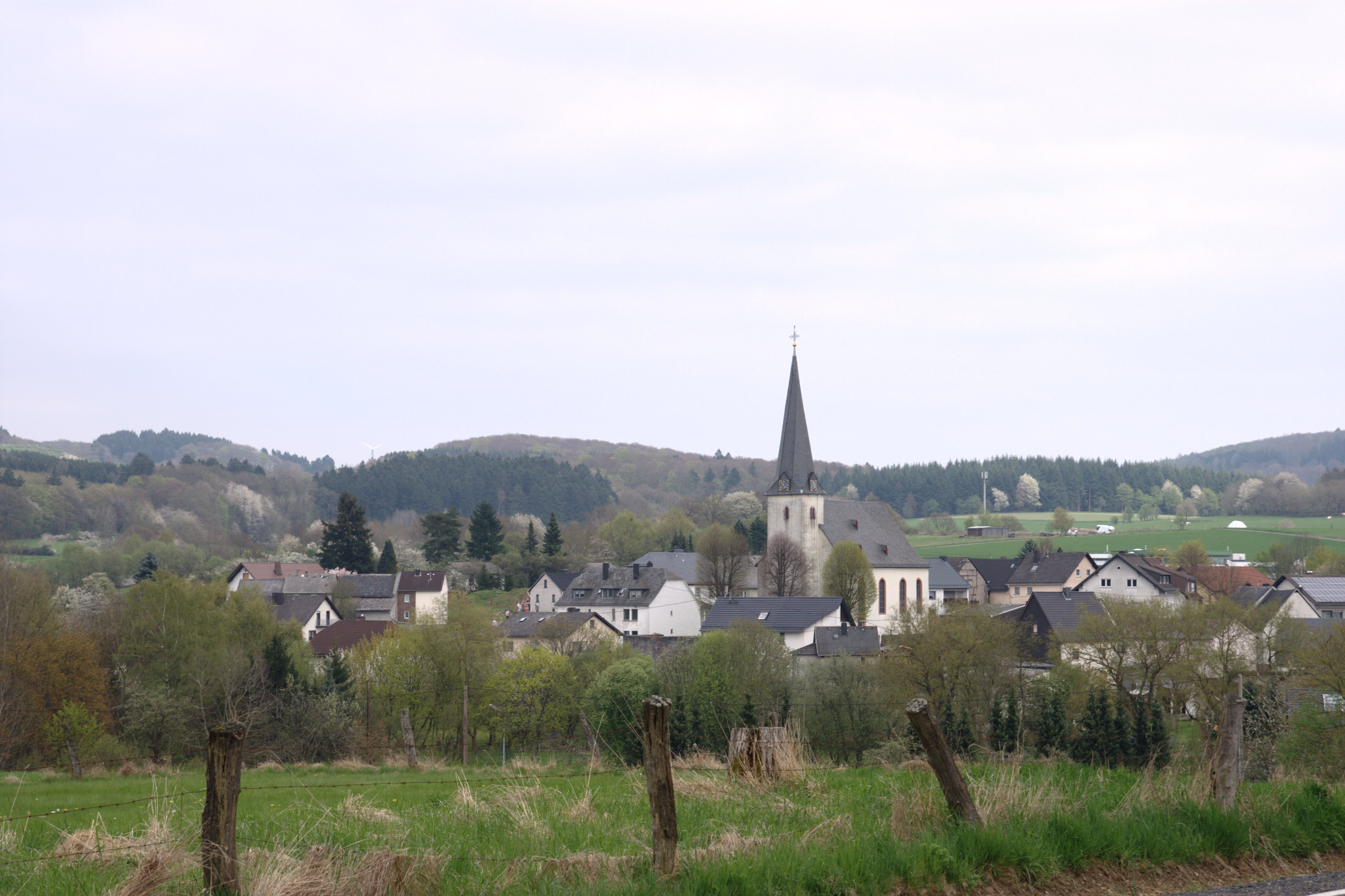 Village Helferskirchen, Westerwald, Germany. View over the village with Catholic church St. Maria, errected 1769